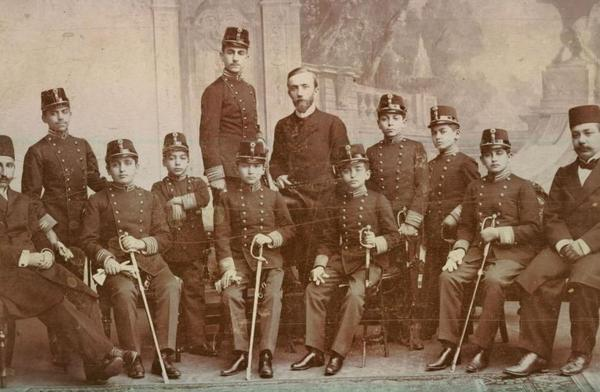 Iranian military students